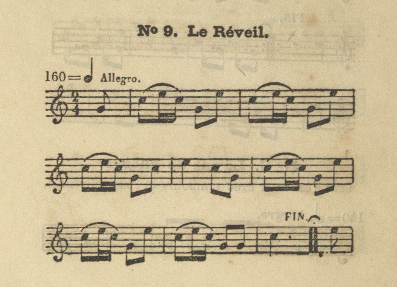 « Le Réveil » (Wake up), is a buggle piece, used in french army to wake up soldiers in the morning. There is song lyrics associated with thi piece of music: Soldat lève toi, soldat lève toi, Soldat lève toi bien vite Soldat lève toi, soldat lève toi, Soldat lève toi bien tôt Si tu n'veux pas te lever, fais toi porter malad' et si t'es pas reconnu, t'auras... quatre jours de plus Soldat lève toi, soldat lève toi, Soldat lève toi bien vite Soldat lève toi, soldat lève toi, Soldat lève toi bien tôt